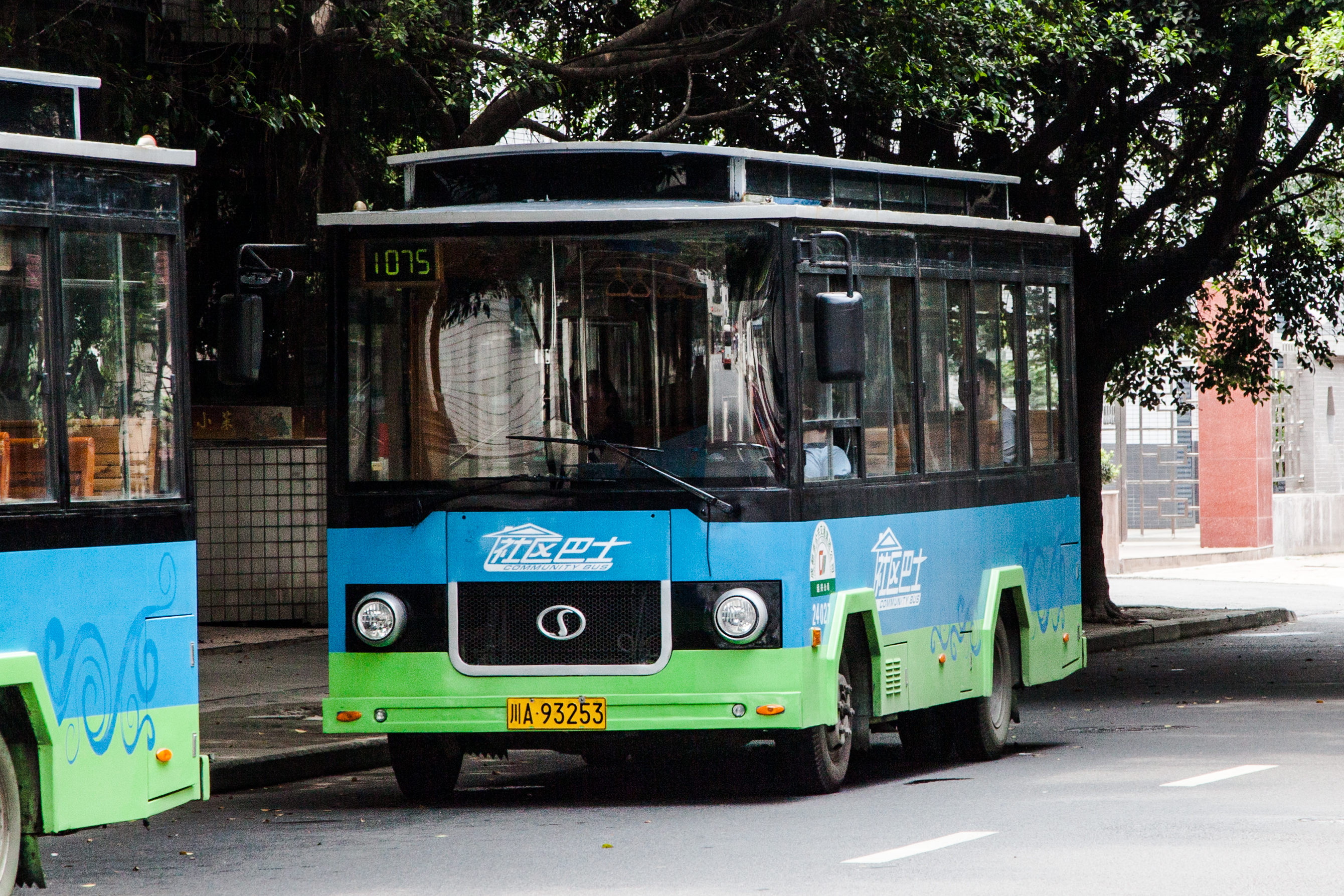 Community Bus in Chengdu